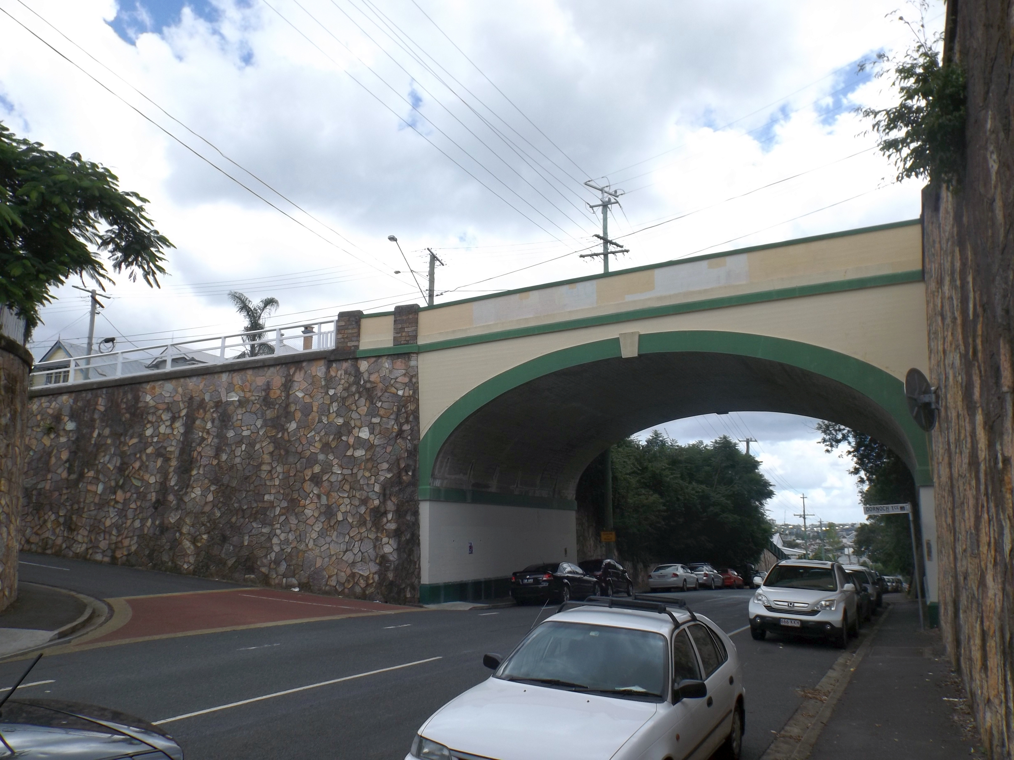 Photo of Dornoch Terrace Bridge from Boundary Street looking westwards in West End, Brisbane, Queensland, Australia.